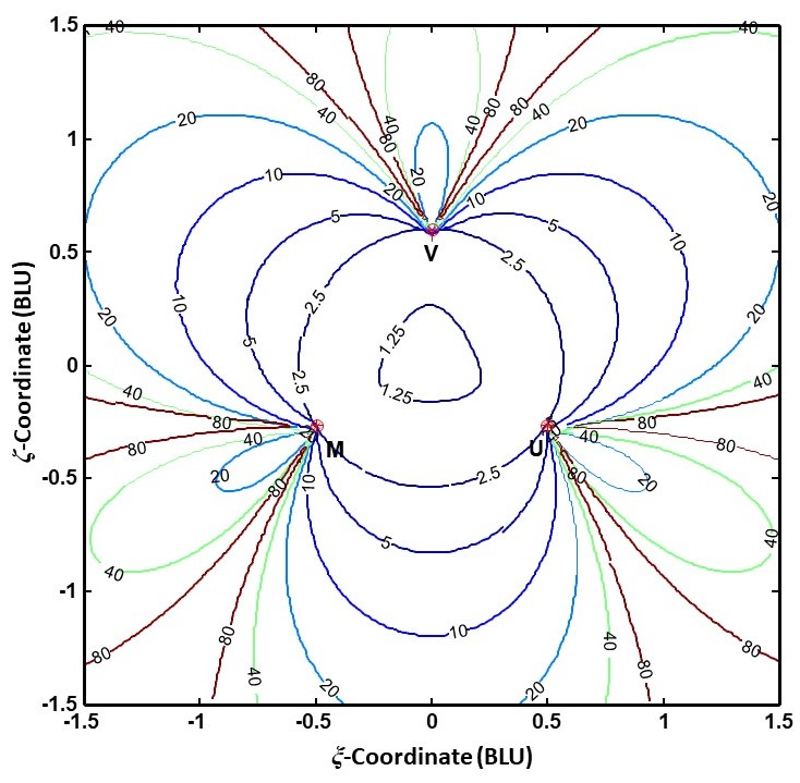 HDOP (Horizontal Dilution of Precision) contours (following a factor of 2 progression) for a planar pseudo range multilateration system having three equally-spaced stations